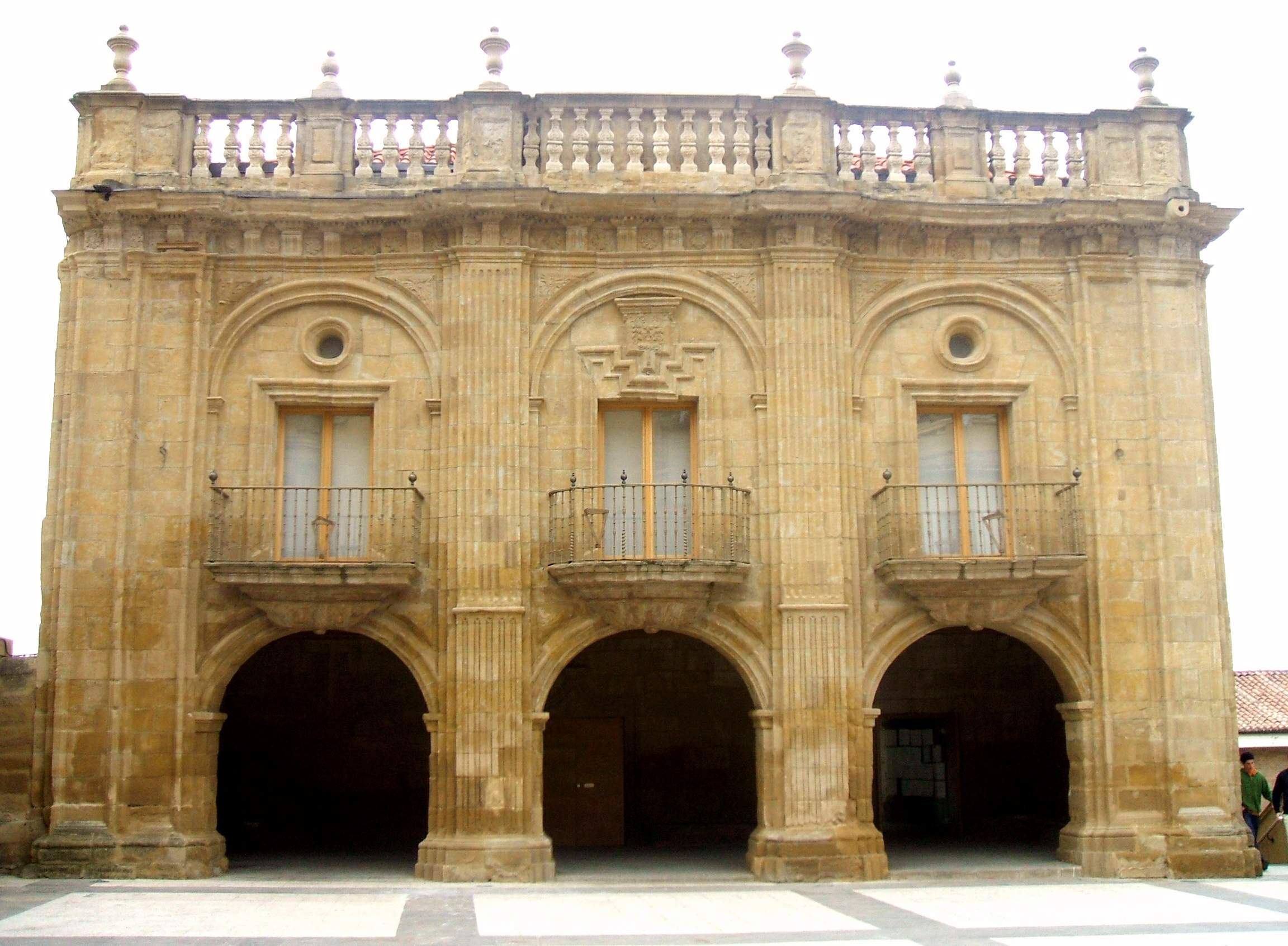 Casa Consistorial de Labastida (Álava)